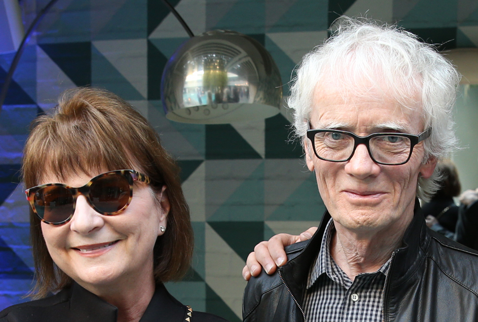 Suzette Couture, Pierre Sarazin Photos by: Jesse Grant